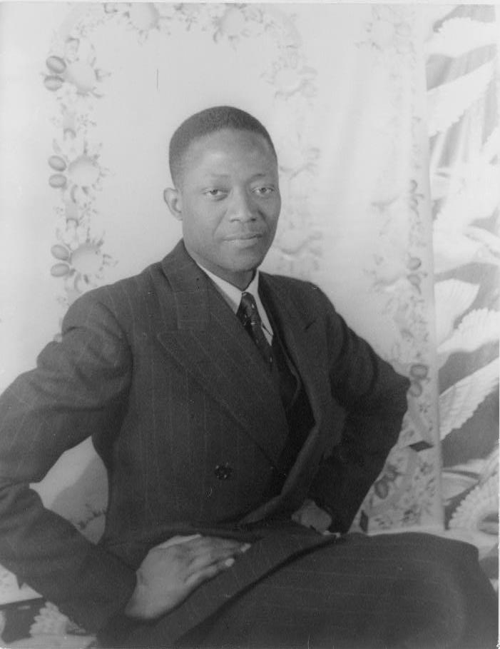 Carl Van Vechten (1880-1964)/LOC cph.3c14505. Feral Benga, 1937